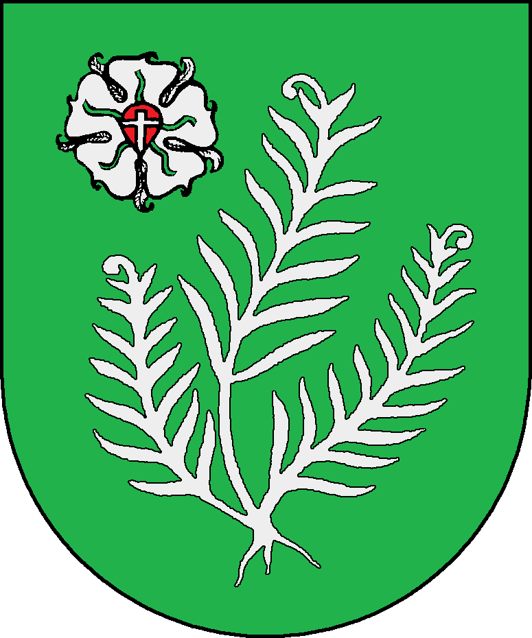 Coat of arms of the municipality Breklum in Schleswig-Holstein, Germany.